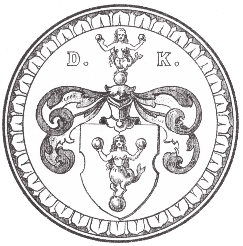 Coat of arms of David Kugler, mayor of Heilbronn